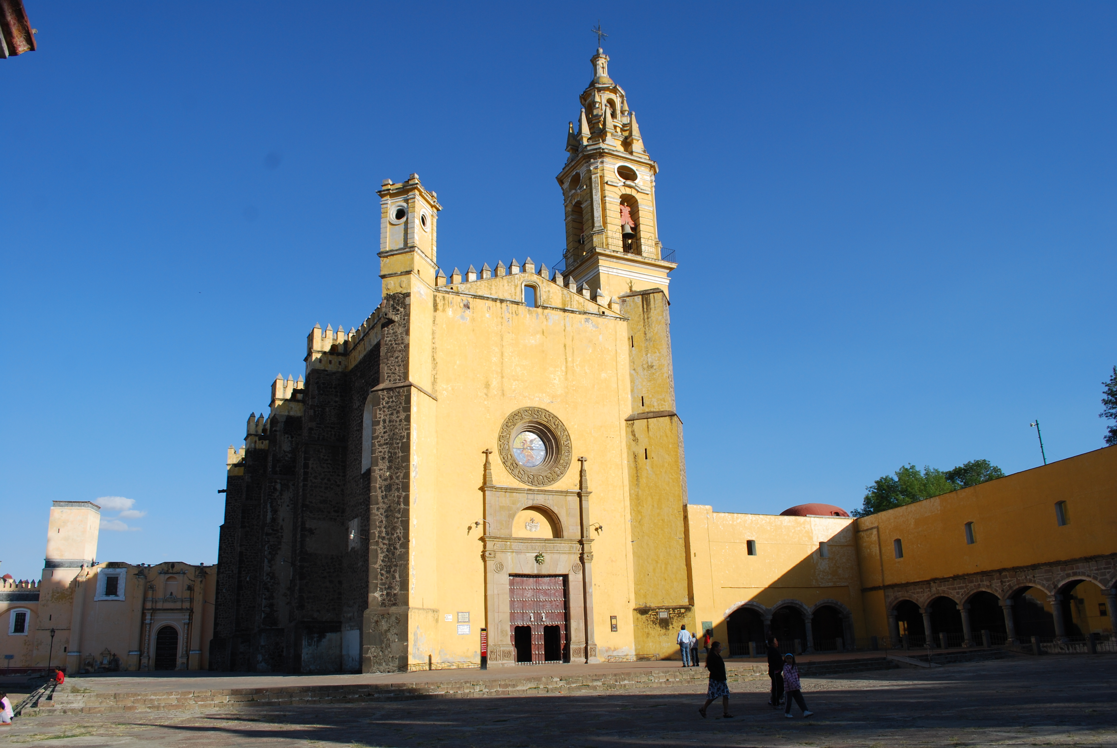 View of the main church of the the former monastery of San Gabriel in Cholula, Puebla, Mexico